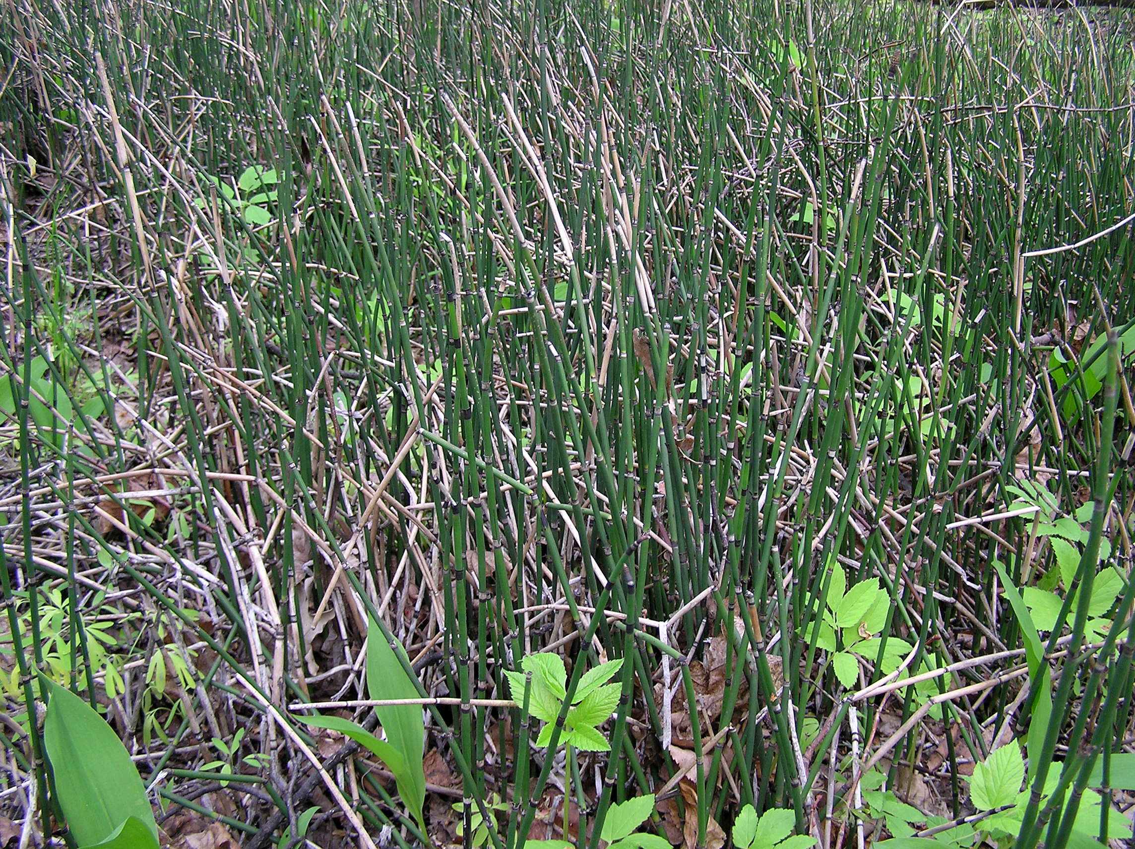 Equisetum hyemale L. (rough horsetail or scouring rush) in spring. Habitat: upland deciduous forest. Vicinity of Saratov city, Russia.